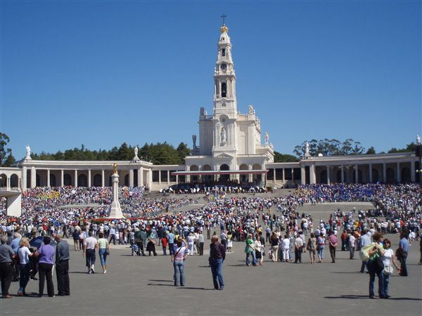 Plein voor de basiliek van Fatima